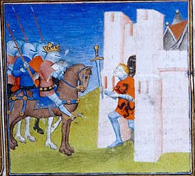 Grandes chroniques de France, Book V, Chapter 28. Hunald of Aquitaine: Scene, Surrender of Loches -- King, possibly Pepin the Short, wearing armor and holding shield, rides bridled horse with group of soldiers with lances toward castle of Loches, from which walks Hunald of Aquitaine, wearing heraldic garment with lion rampant and holding blade of sword in right hand.